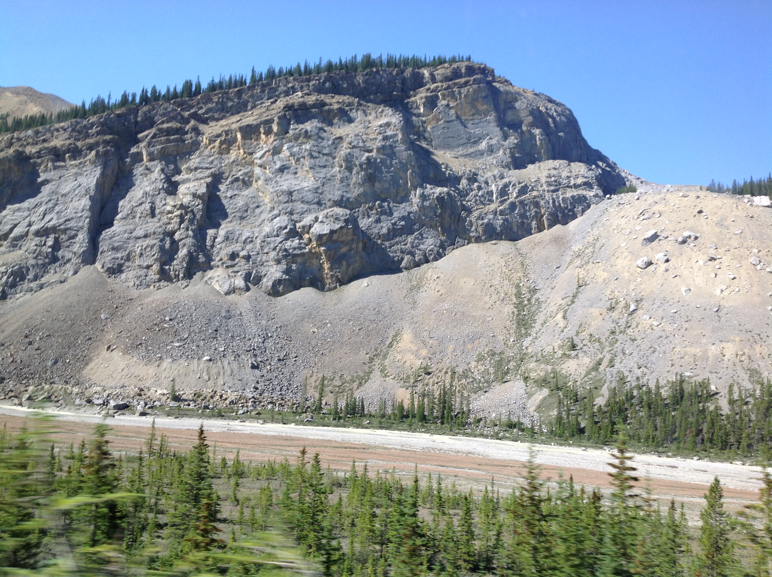 Sedimentary rocks in Jasper National Park, Alberta, Canada